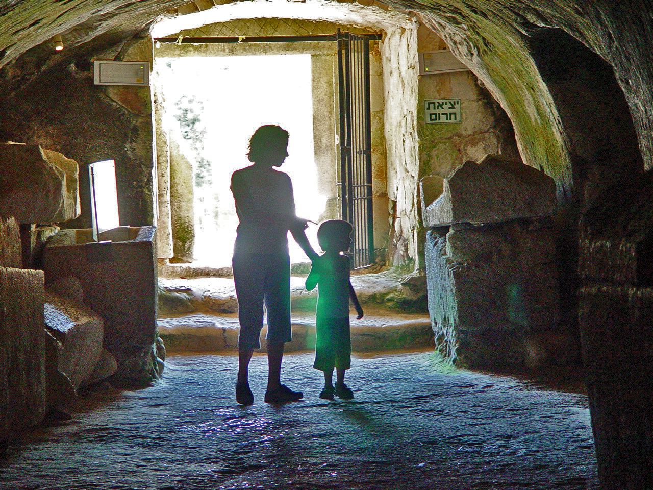 Visitors at the Cave of Coffins, Beit She'arim National Park, Israel